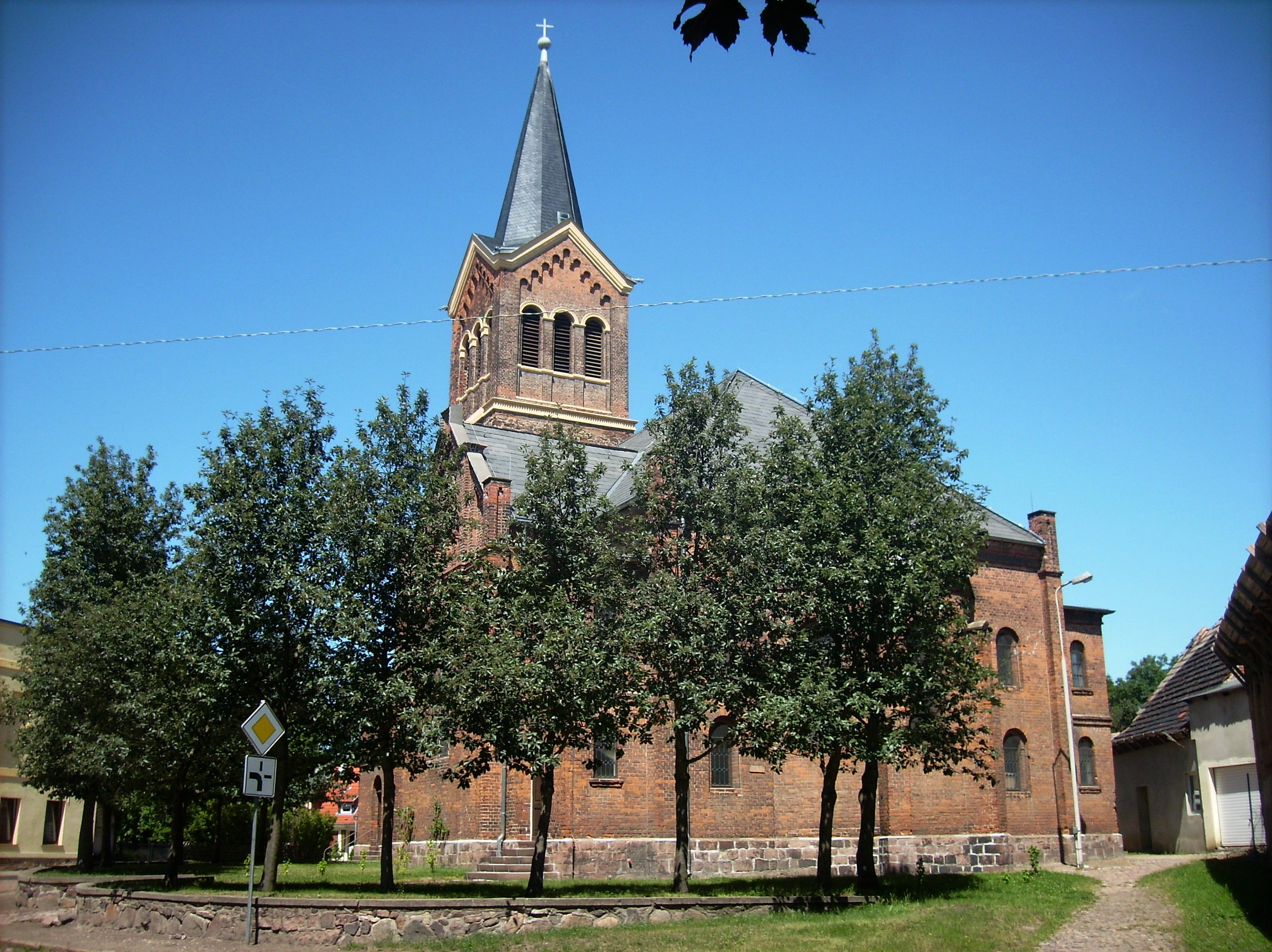 Church in Radegast (Südliches Anhalt, Anhalt-Bitterfeld district, Saxony-Anhalt)